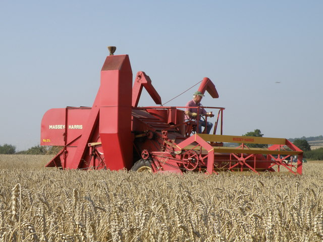 Classic combine harvester working at Little Casterton, Rutland, Great Britain. A 1945 Massey Harris 21A tanker combine, harvesting wheat on a glorious September day at the Little Casterton working weekend. A gathering of rare and unusual farm machines operating for public viewing. The proceeds of the entry fee go towards the maintenance of Little Casterton church.